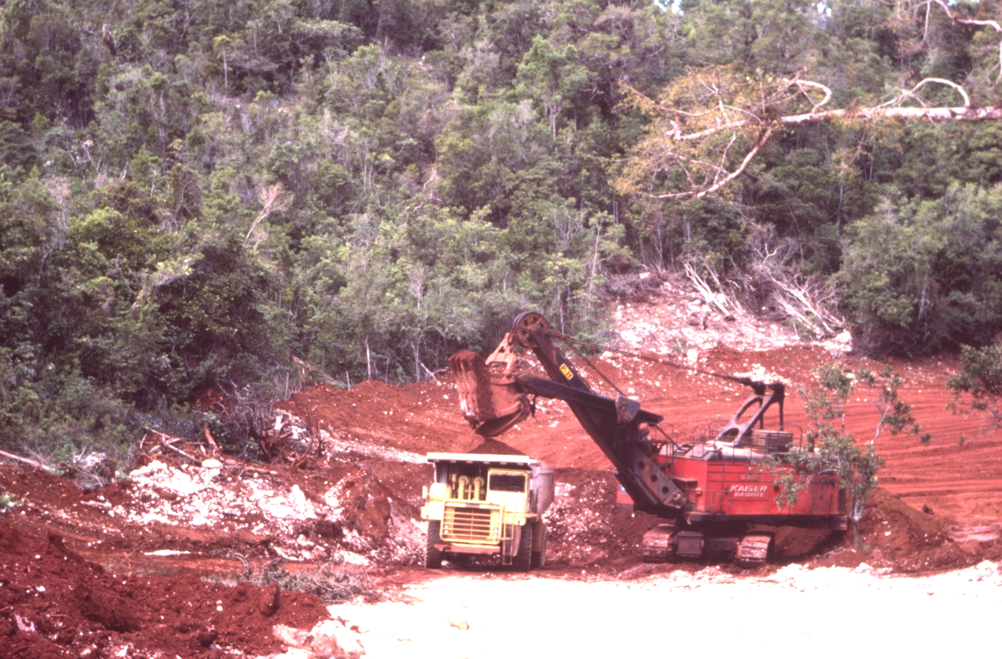 Central Jamaica, Off main road running South from Discovery Bay. Somewhere in Cockpit Country. Georeference is probably not accurate.